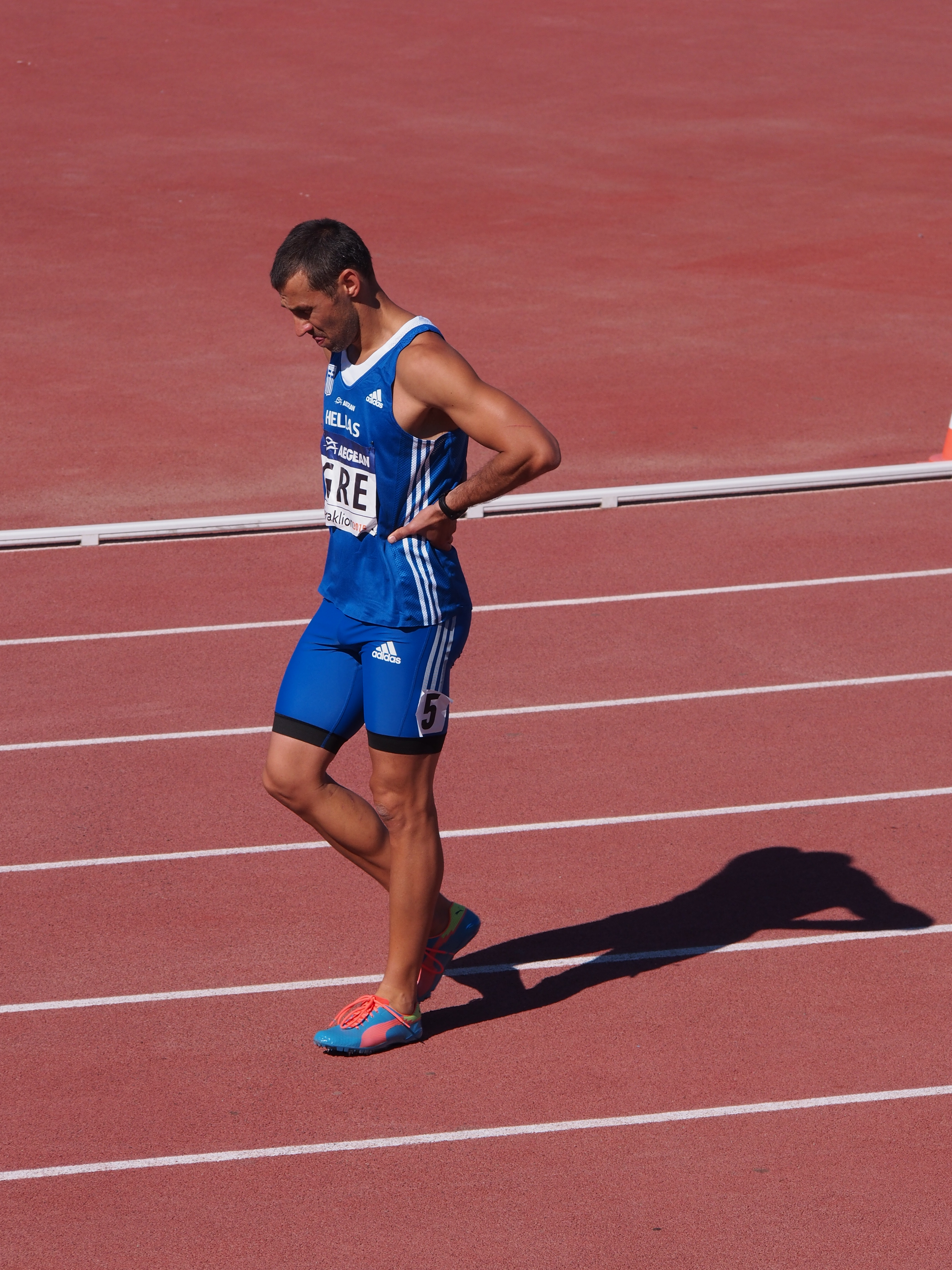 Periklis Iakovakis before the last 400m Hurdles race of his carreer, at 2015 European Team Championships First League.